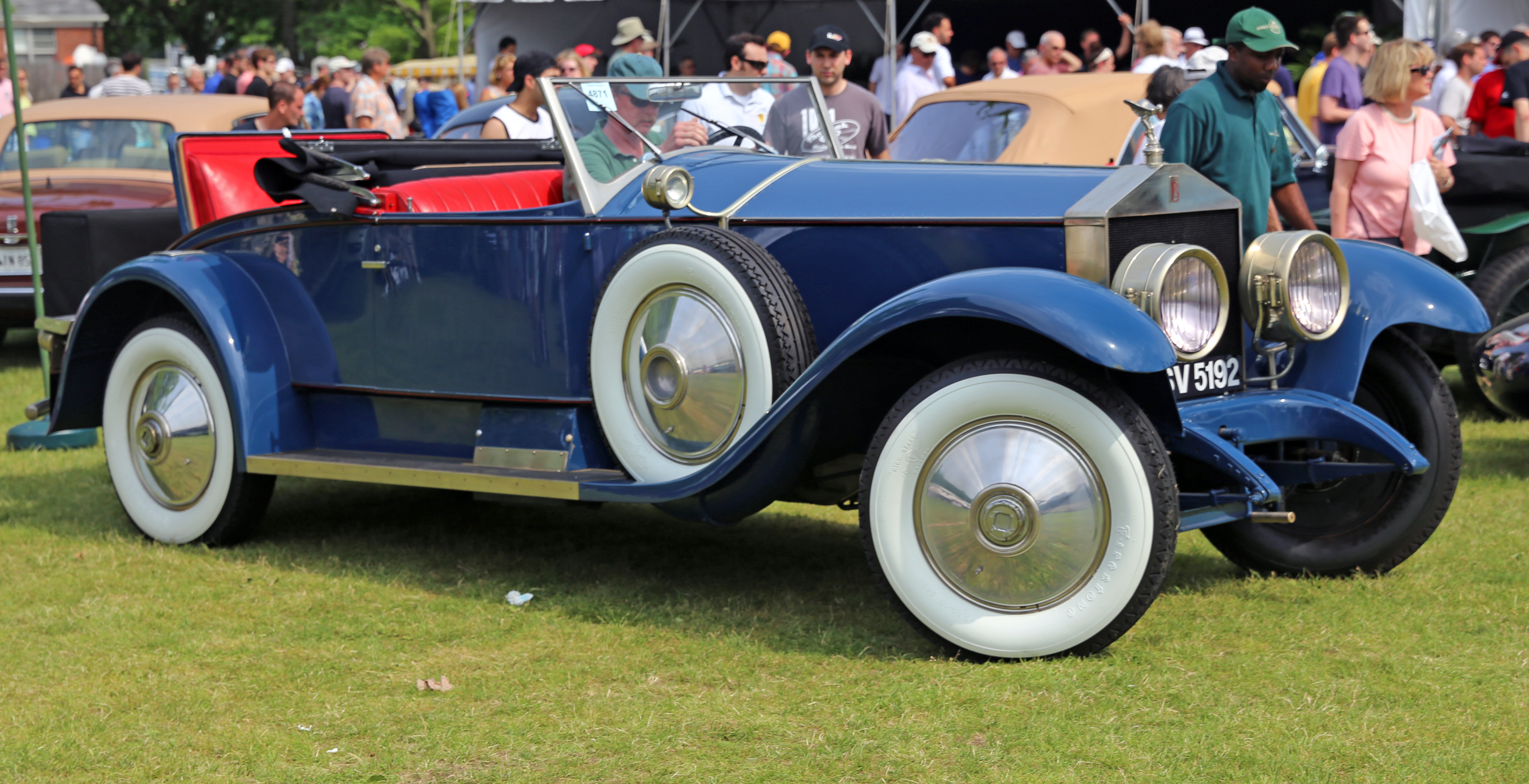 1926 Rolls-Royce 45/50hp Silver Ghost 'Playboy' Roadster at the 2013 Greenwich Concours d'Elegance. Belgian license plate SV 5192, where this car spent a long time after having originally been sold new in Greenwich, CT with "Mayfair Town Car" coachwork. Rolls-Royce Springfield then bought the car back and rebodied it with this stylish "Playboy" bodywork also by Brewster. Chassis number S400RK, engine 28004.